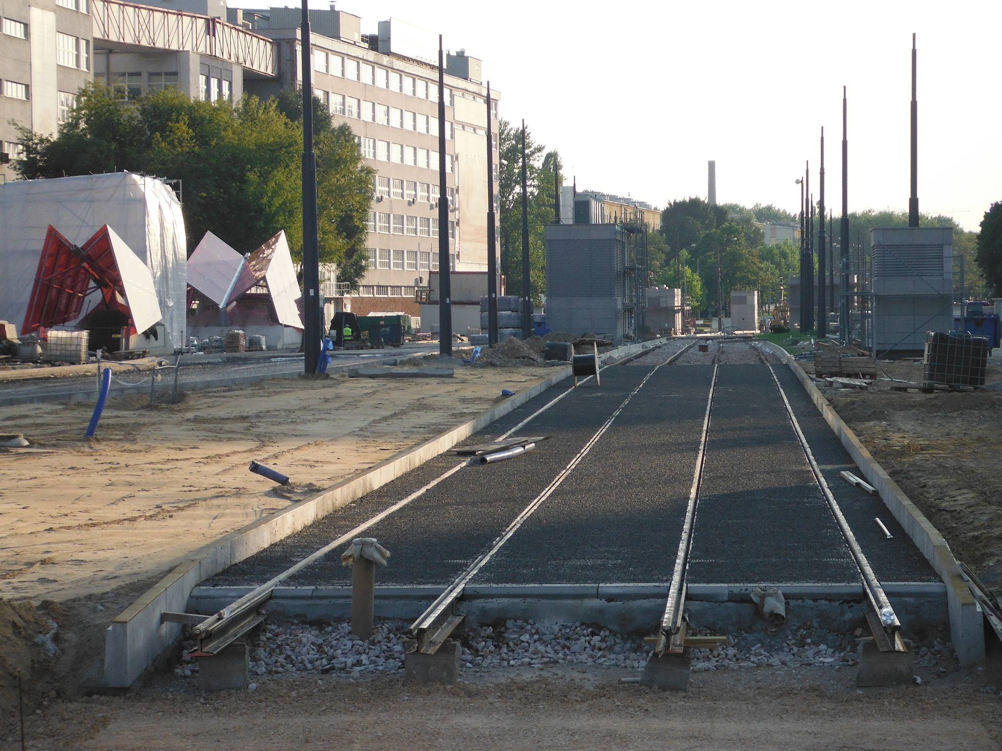 Rondo Daszyńskiego metro station (under construction) in Warsaw (2nd of August 2014).